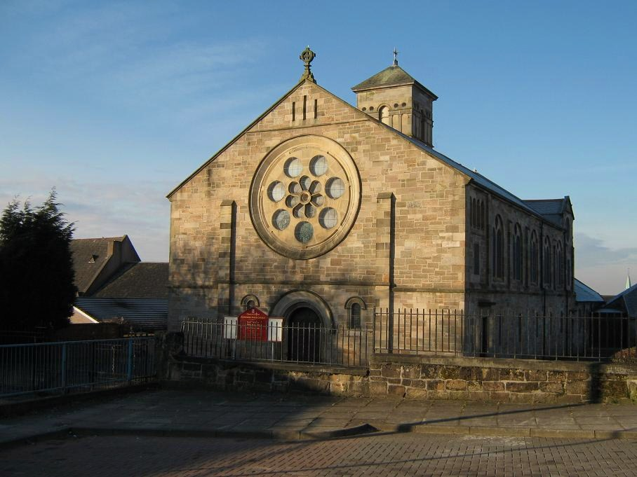 Flowerhill Parish Church Built by local architect Matthew Forsyth of Springwells. Opened 1875.